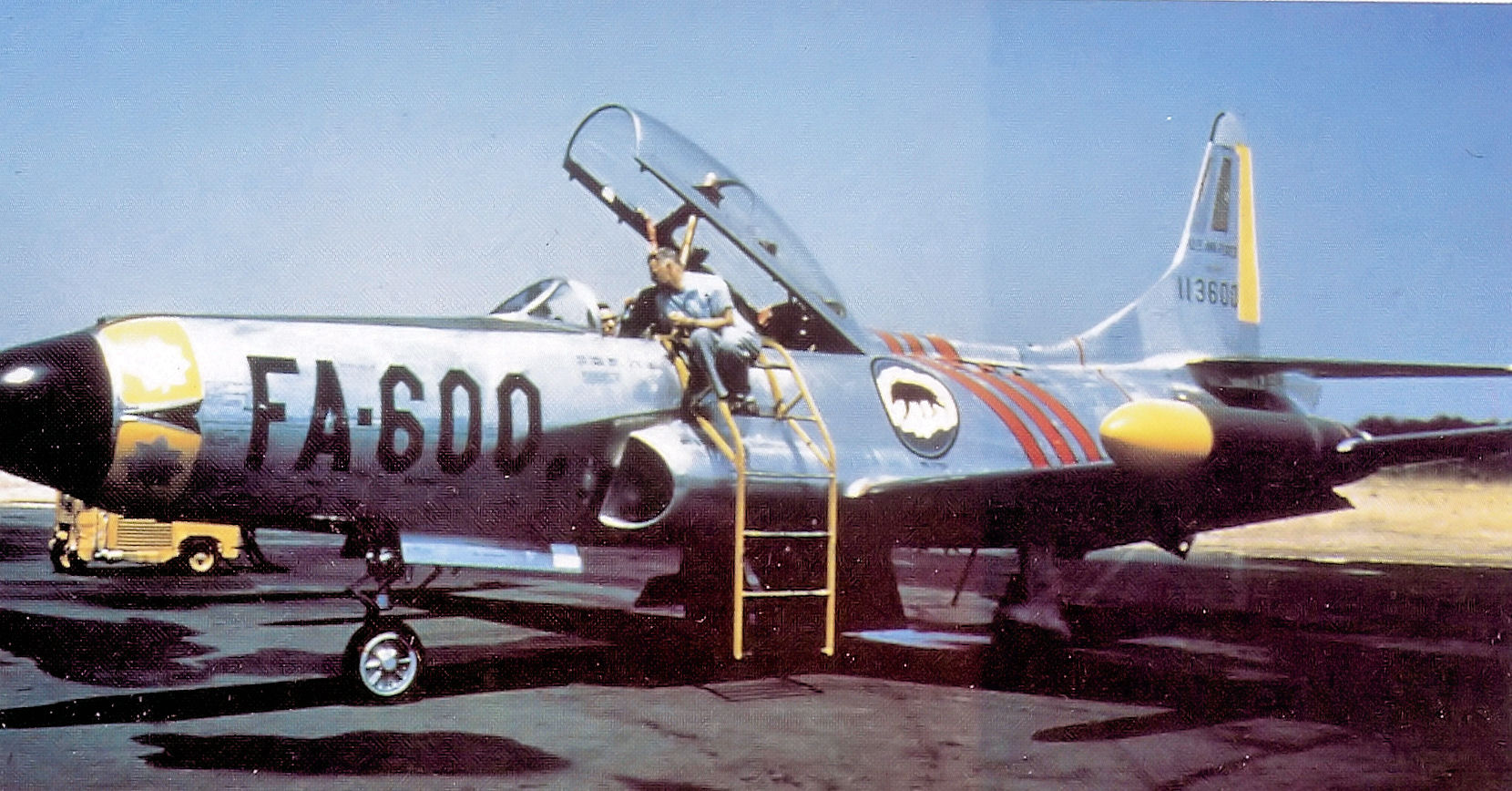 46th Fighter-Interceptor Squadron Lockheed F-94C-1-LO Starfire 51-13600 Dover AFB, Delaware 1954